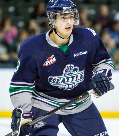 Image of Mathew Barzal playing with the Seattle Thunderbirds in 2015.